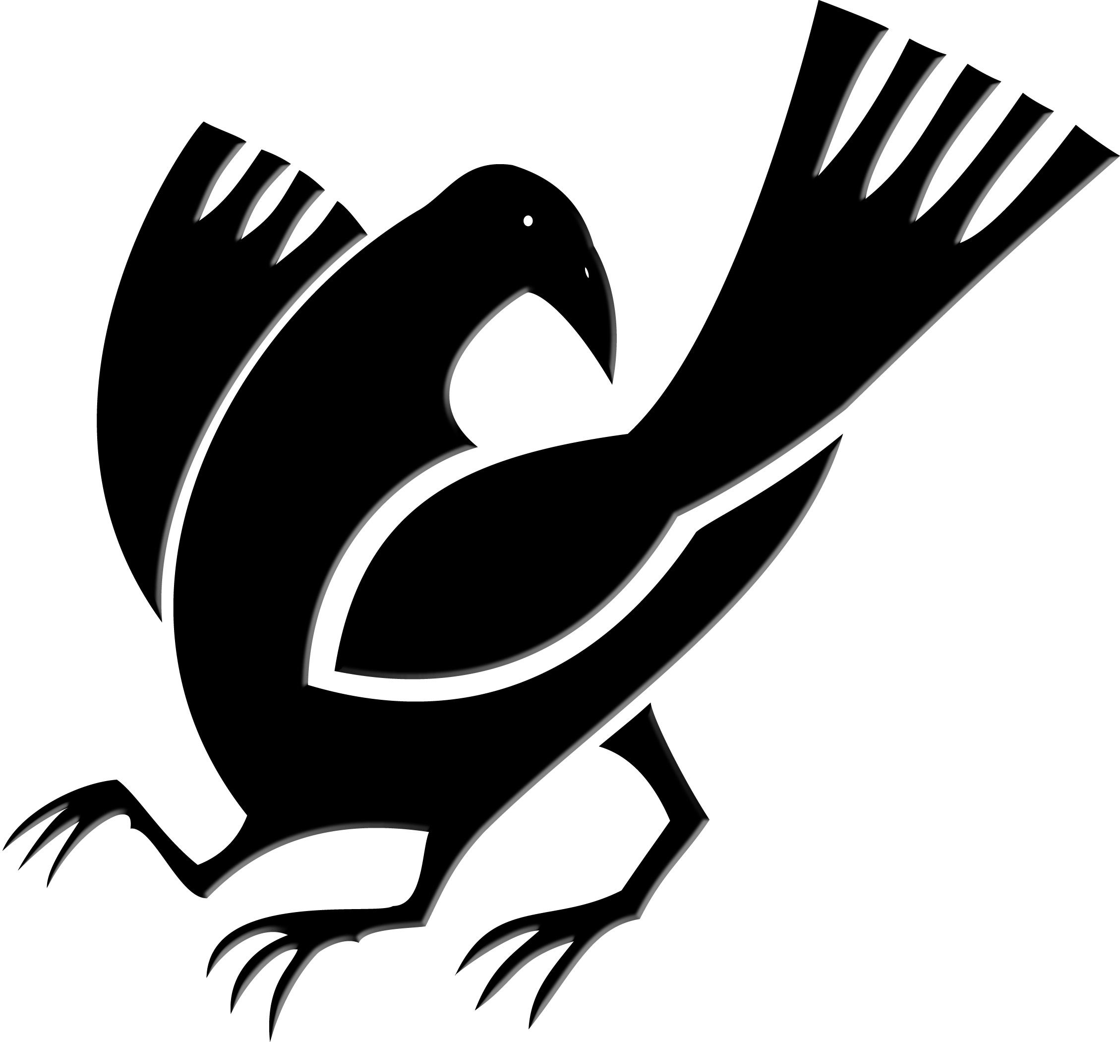 Three Legged Mythological Bird found in Asian Art. Based on Korean Design.